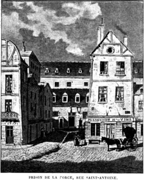 La Force Prison in Paris, France